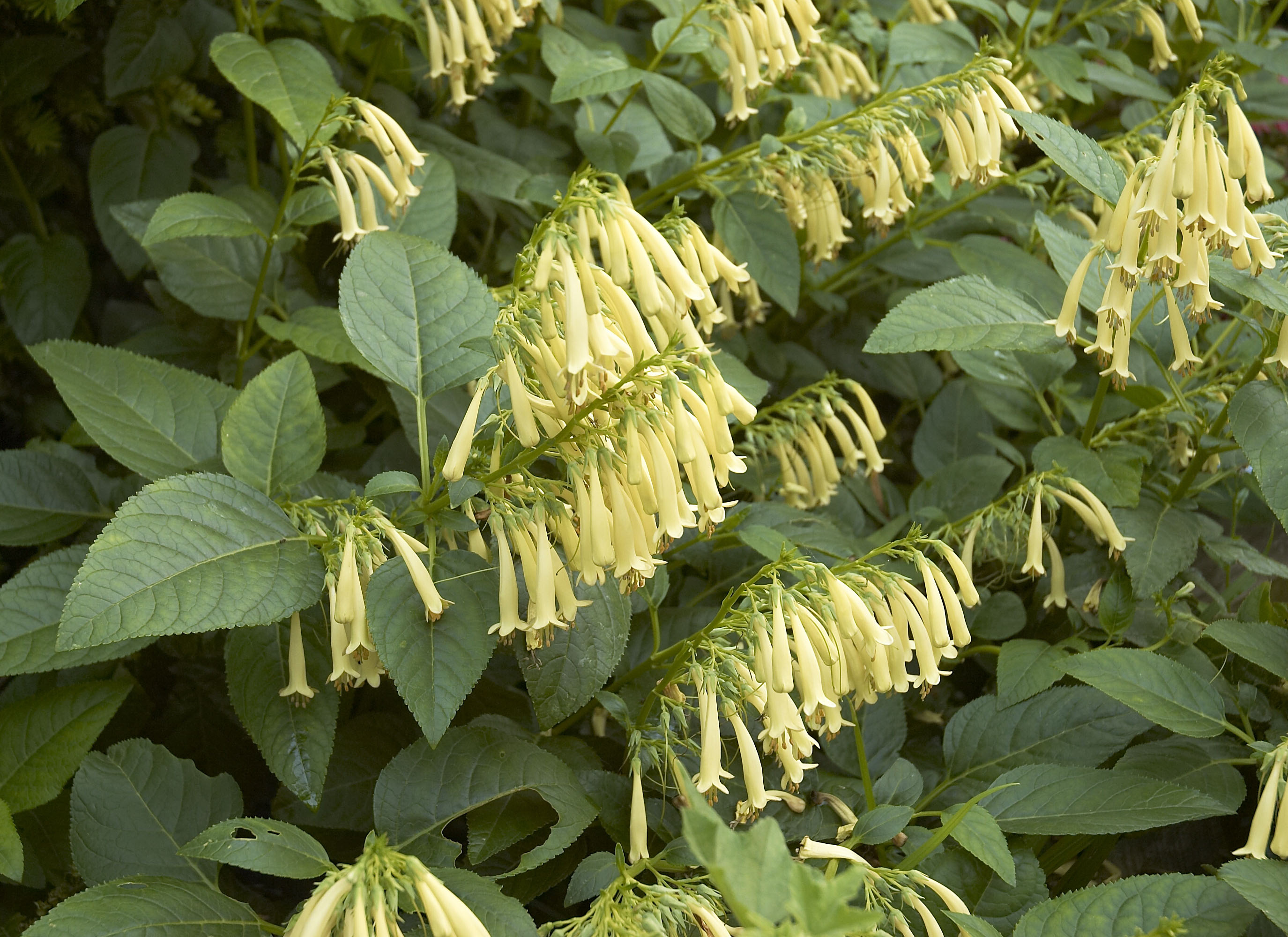 Phygelius aequalis 'Yellow Trumpet'